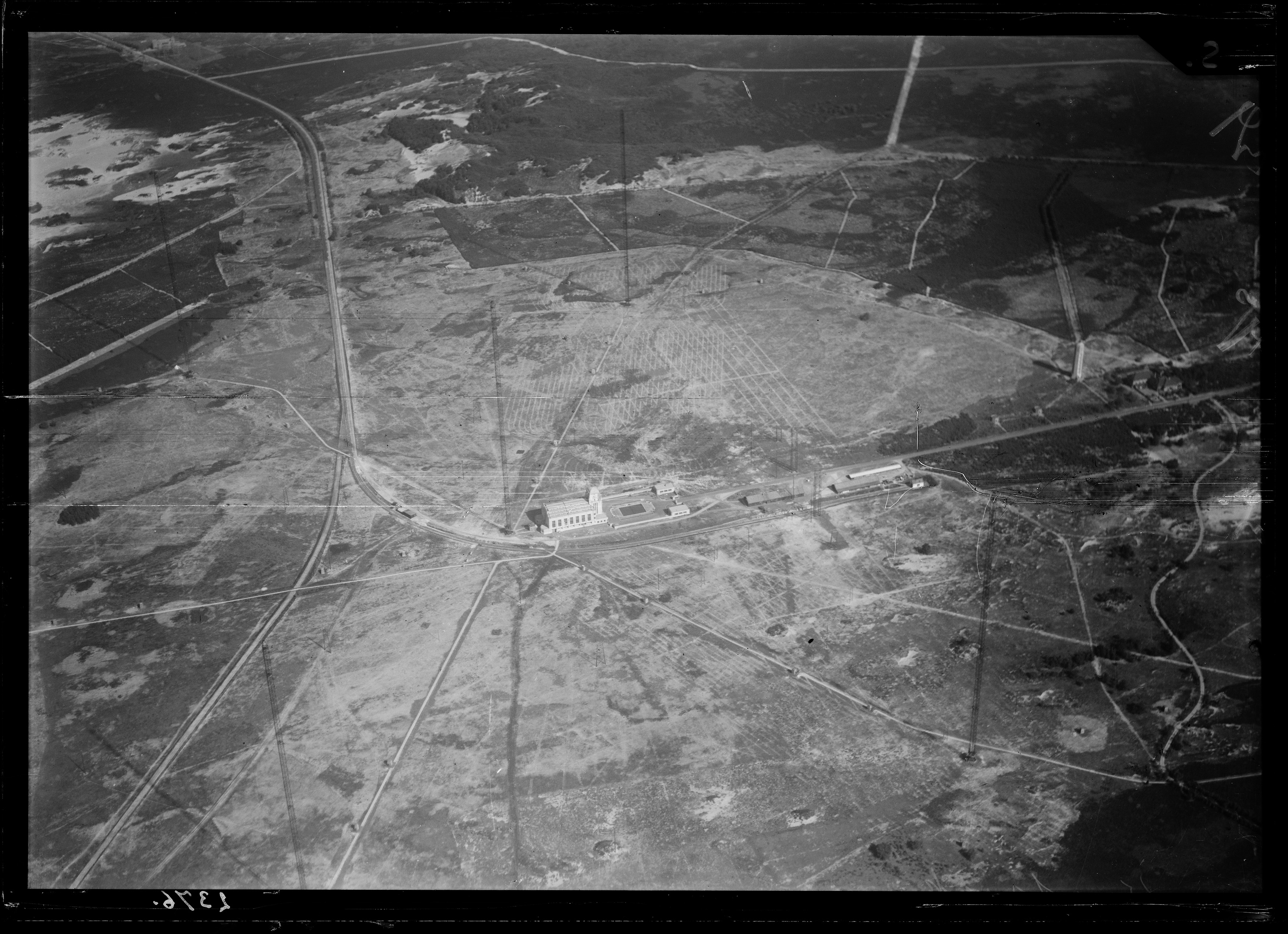 Aerial photograph of Kootwijk, The Netherlands